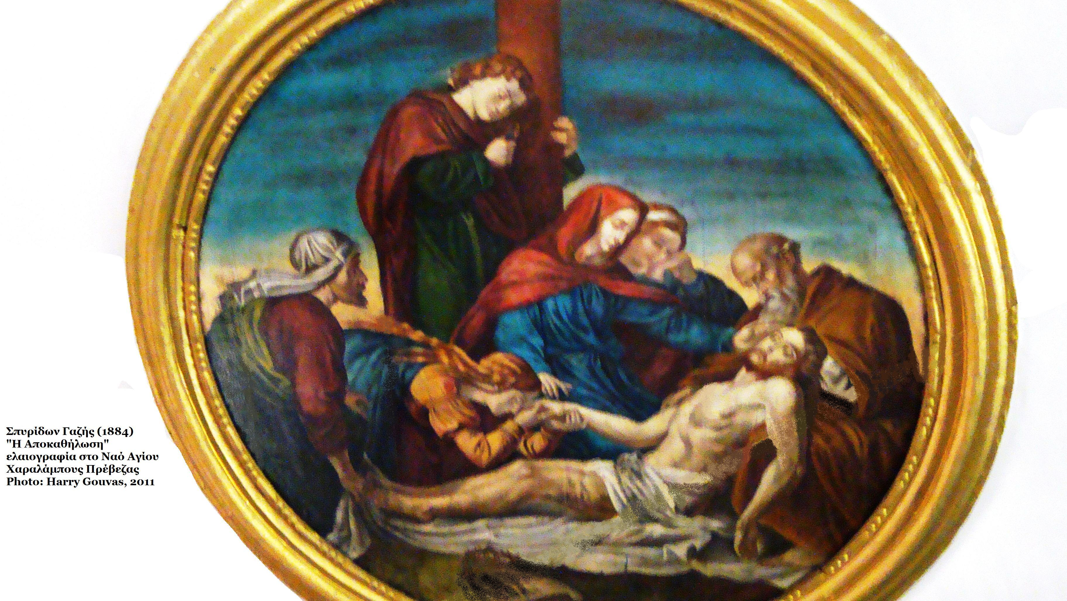 Descent from the Cross by Spyros Gazis